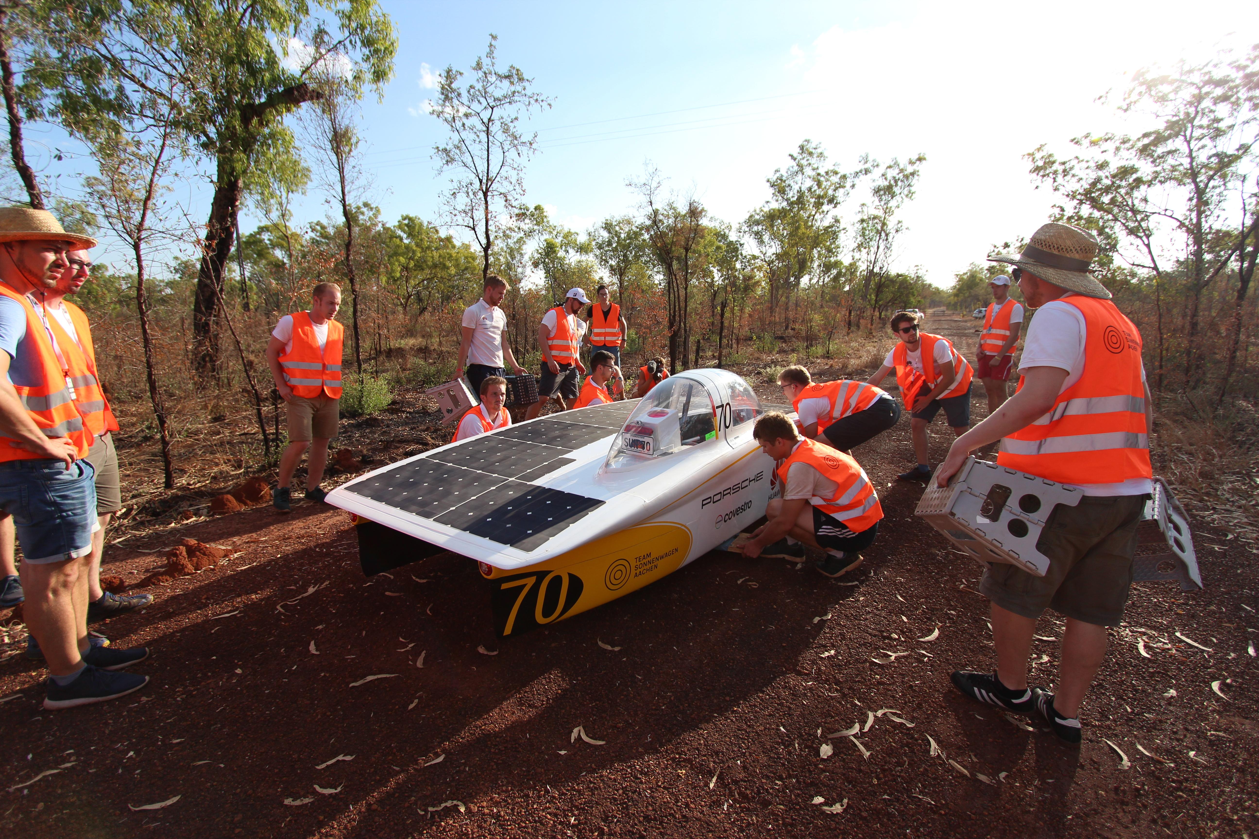 Preperation of the Huawei Sonnnenwagen for the first overnight stay in the australian outback